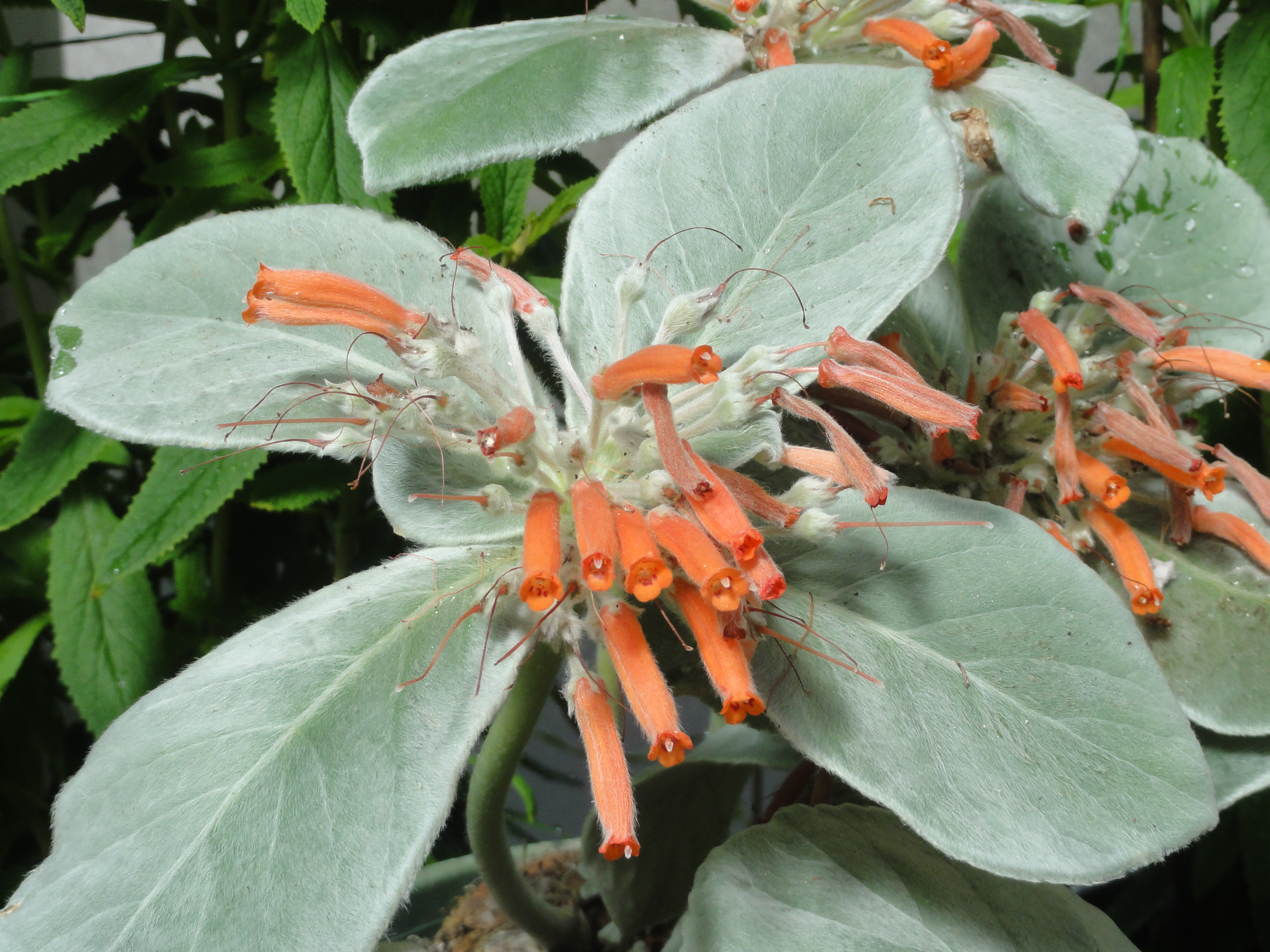 Sinningia leucotricha, Auckland Winter Garten